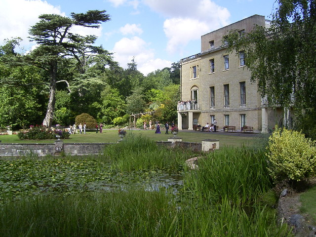 Nutwell Court. Nutwell Court is located in beautiful gardens and parkland on the Exe estuary just to the north of Lympstone village. The picture is looking across part of the largest pond in front of the house. The photographer is just inside the grid square below as the grid line passes immediately to the south of the house and through the pond.